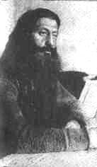 Nestor Alexandrovich Kalandarishvili